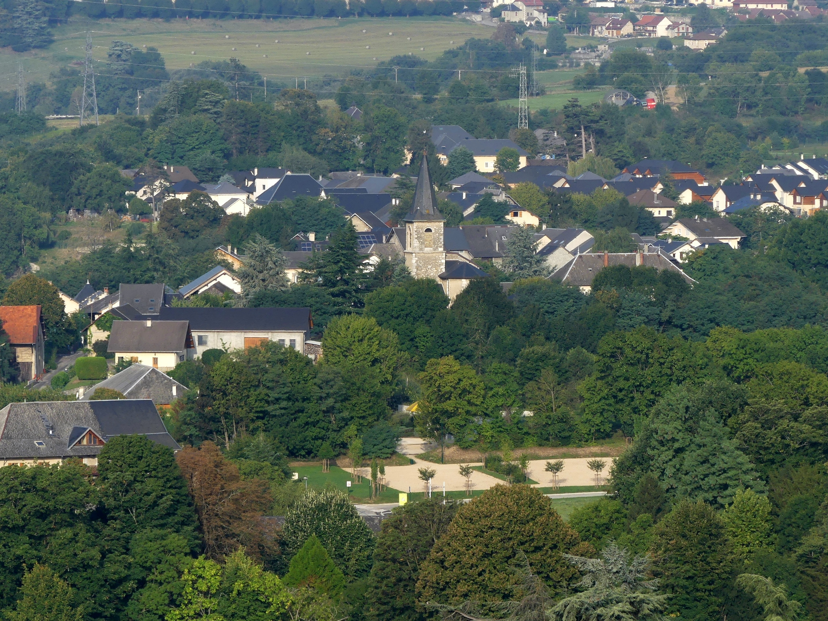 Sight, from Le Rocher hill in Montmélian, of Francin village, in Savoie, France.